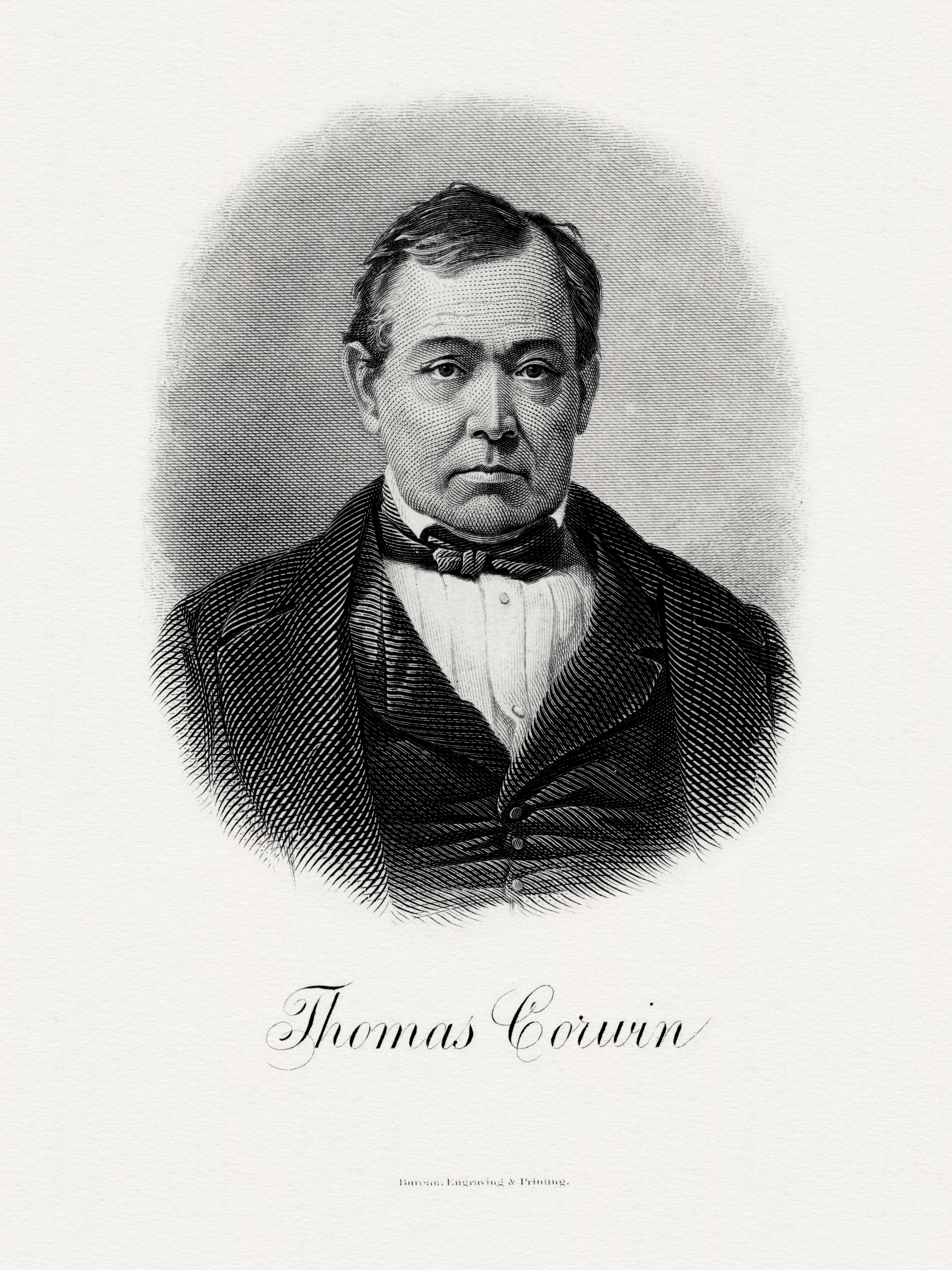 Engraved BEP portrait of U.S. Secretary of the Treasury Thomas Corwin